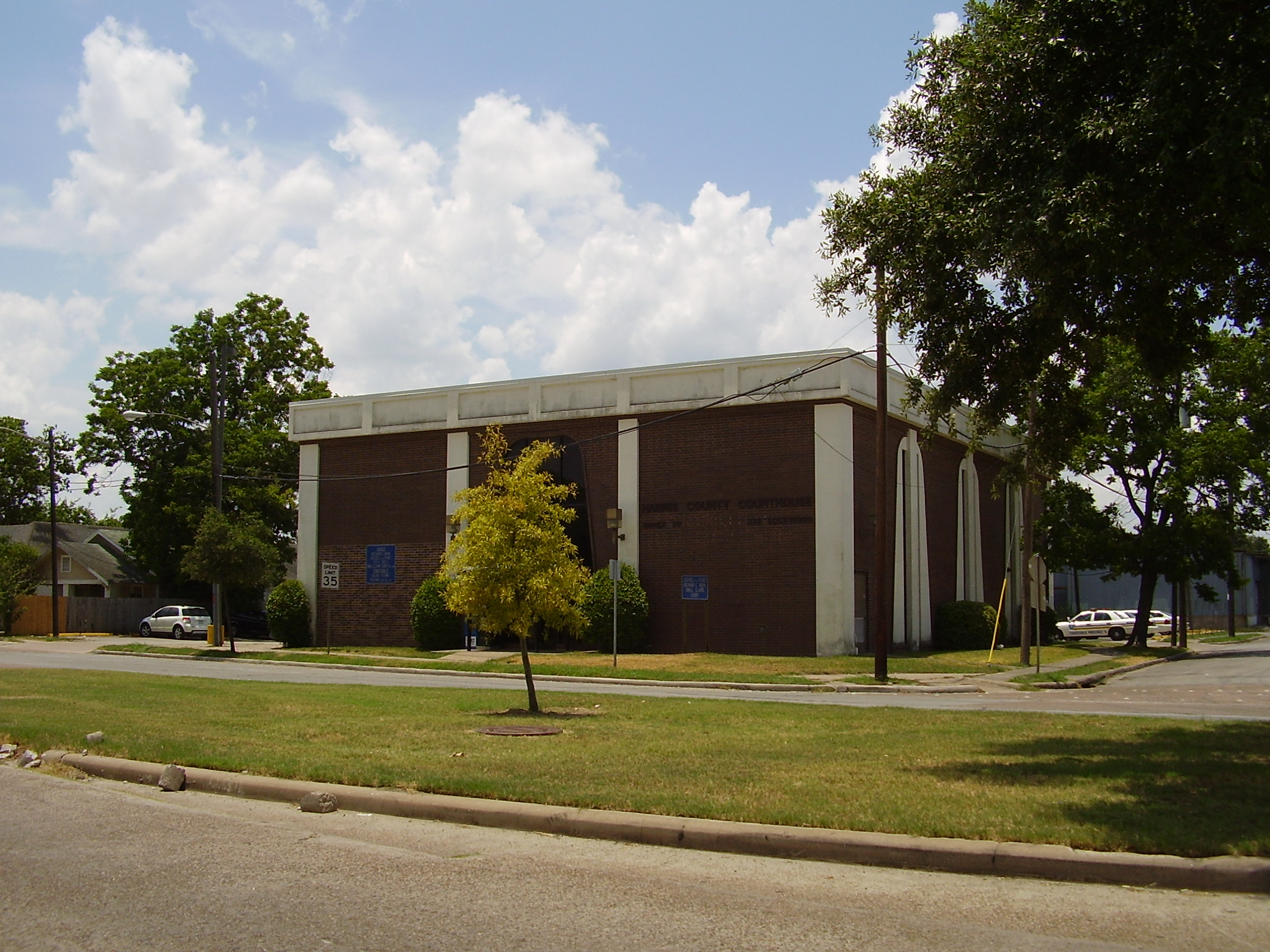 Harris County Courthouse Lockwood Annex (Annex #39) - 333 Lockwood Drive